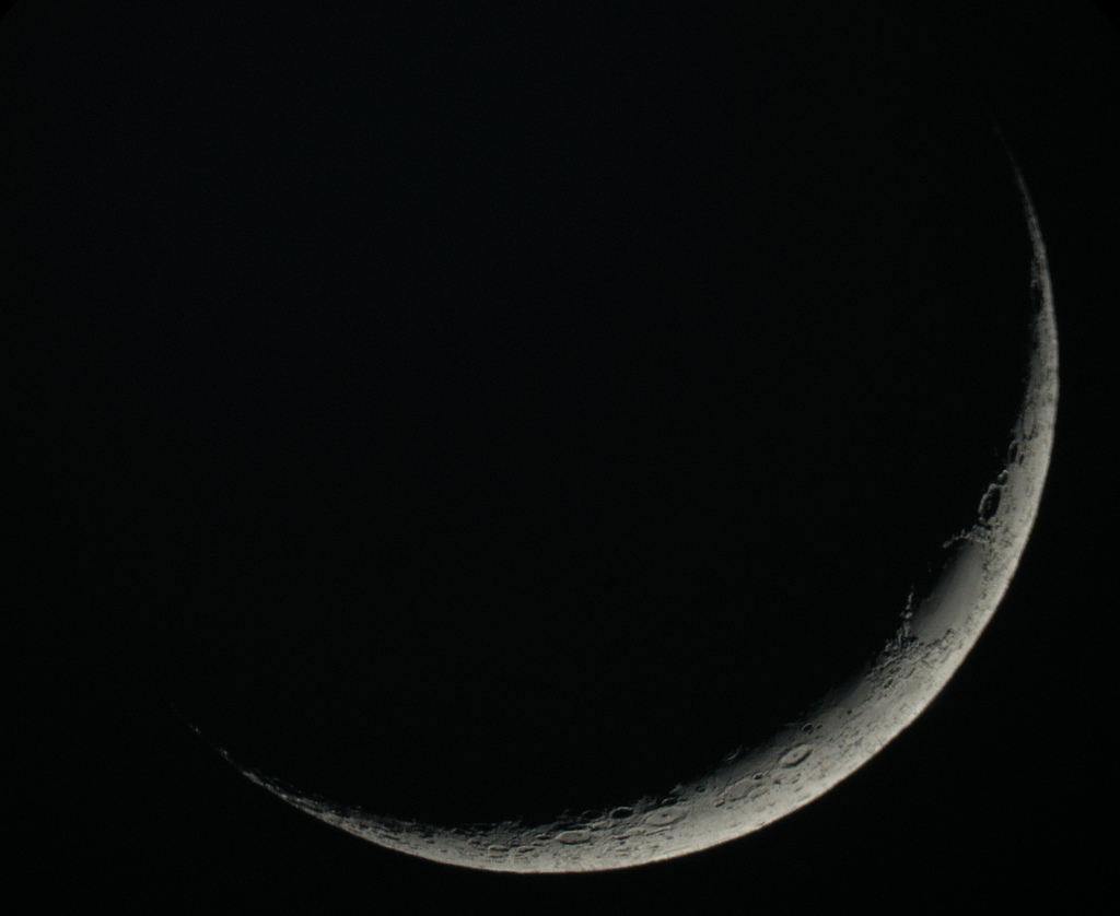 Photo taken with Nikon Coolpix P5000 put in afocal behind a telescope "Celestron C8" of 2000 mm focal distance equipped with an eyepiece of 40 mm focal distance.